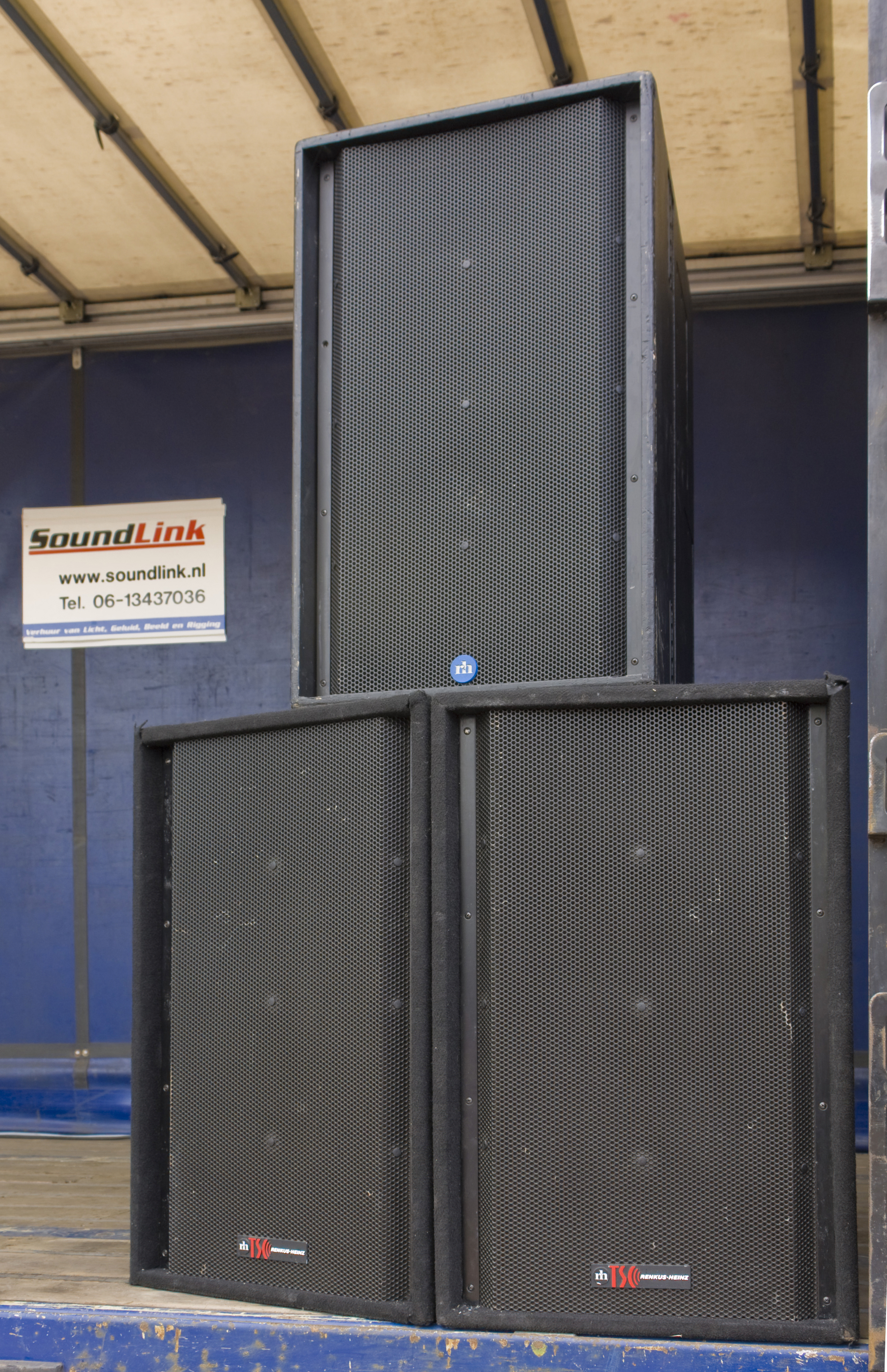 A stack of Renkus-Heinz loudspeakers used at a small open-air festival. The stack consists of 2x C3-sub subwoofers and 1x CE3-64 mid/high cabinet.